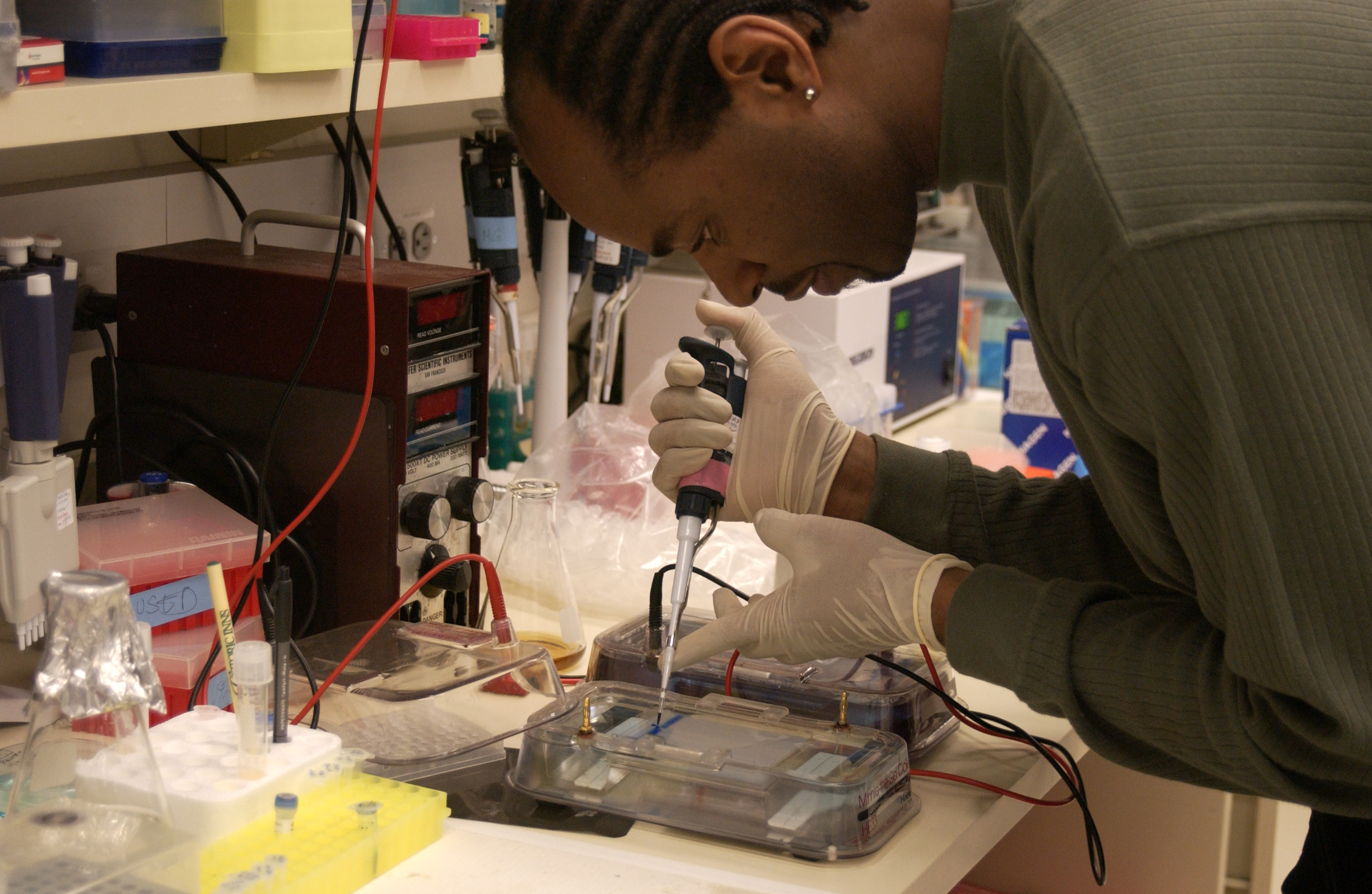 NHGRI researcher Milton English, Ph.D., using a pipette to load DNA into a gel.